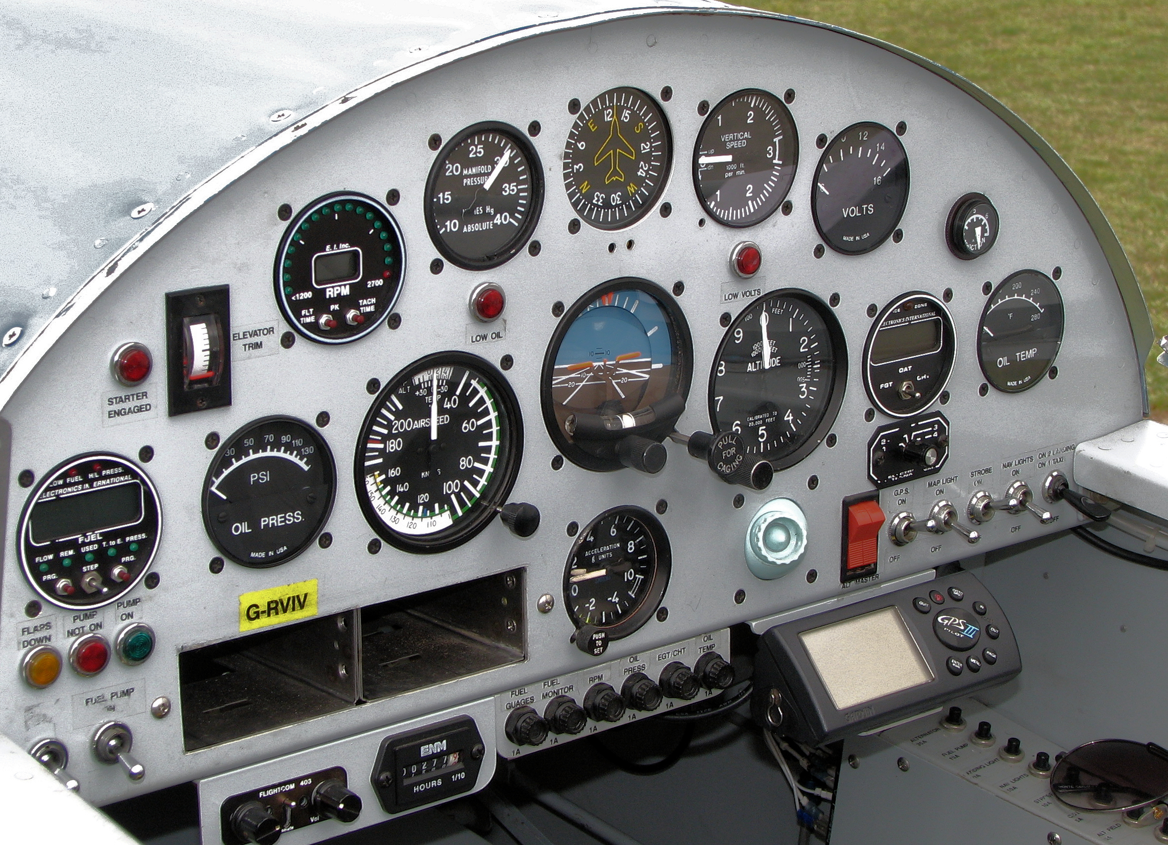 Van’s RV-4 (G-RVIV) at a Light Aircraft Association (then the Popular Flying Association) at Kemble Airport (then Kemble Airfield), Gloucestershire, England. Built 1999. The VSI instrument is to the right of the yellow aircraft symbol on the top row.